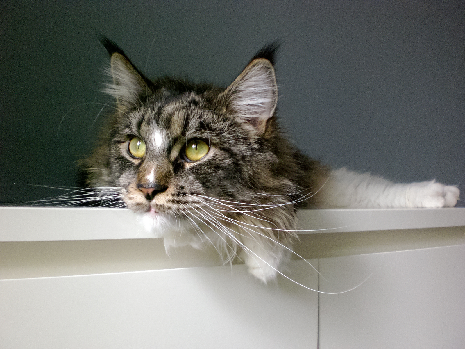 Two year old male Maine Coon in black-mackarel-tabby-white